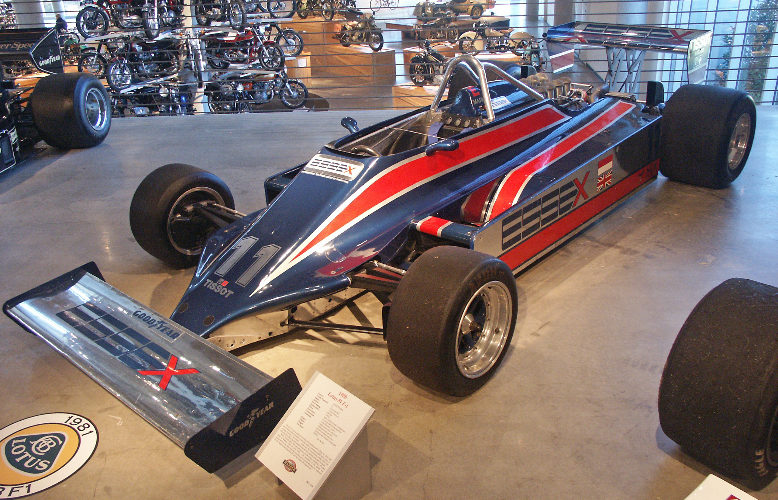 Mario Andretti's 1981 Lotus 81 at the Barber Vintage Motorsport Museum in Leeds, Alabama, USA.